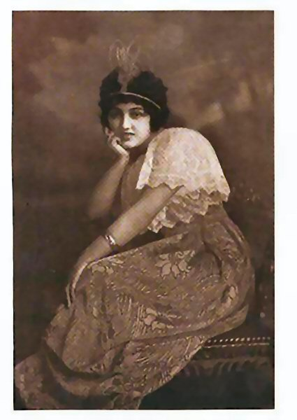 Actress Rhea Haines